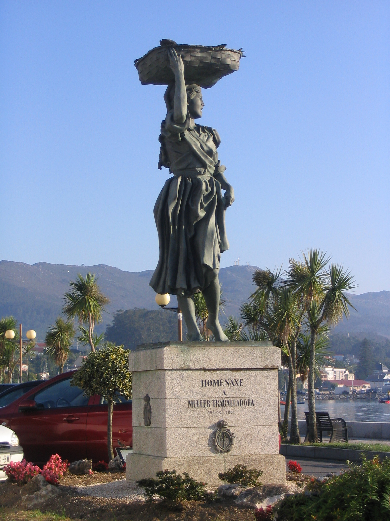 Working Woman (Homenaxe a Muller Traballadora), by Gonzalo Sanchez Mendizabal.A Pobra do Caramiñal, Spain A monument to the working woman of A Pobra do Caramiñal (Galicia, Spain) depicting a young woman of the sardine conserve industry; an enterprise that bestowed wealth to the village.